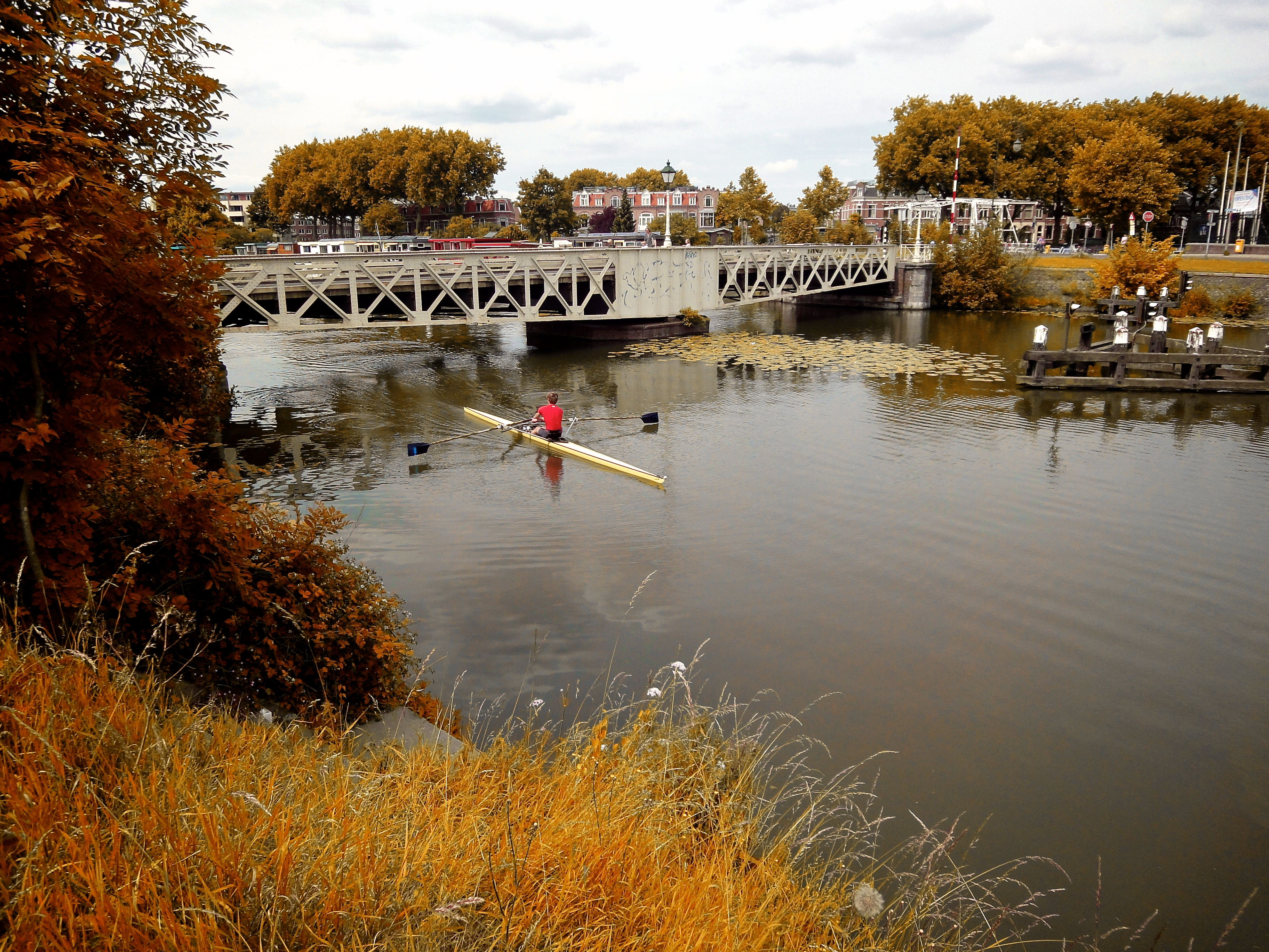 Skiffeur roeit onder de Muntbrug door. Autumn in spring (hue shift of the greens in Aperture 3.1). Single sculler approaches the steps opposite the Royal Dutch Mint. Google Streetview.